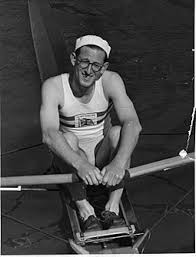 photograph of bert bushnell